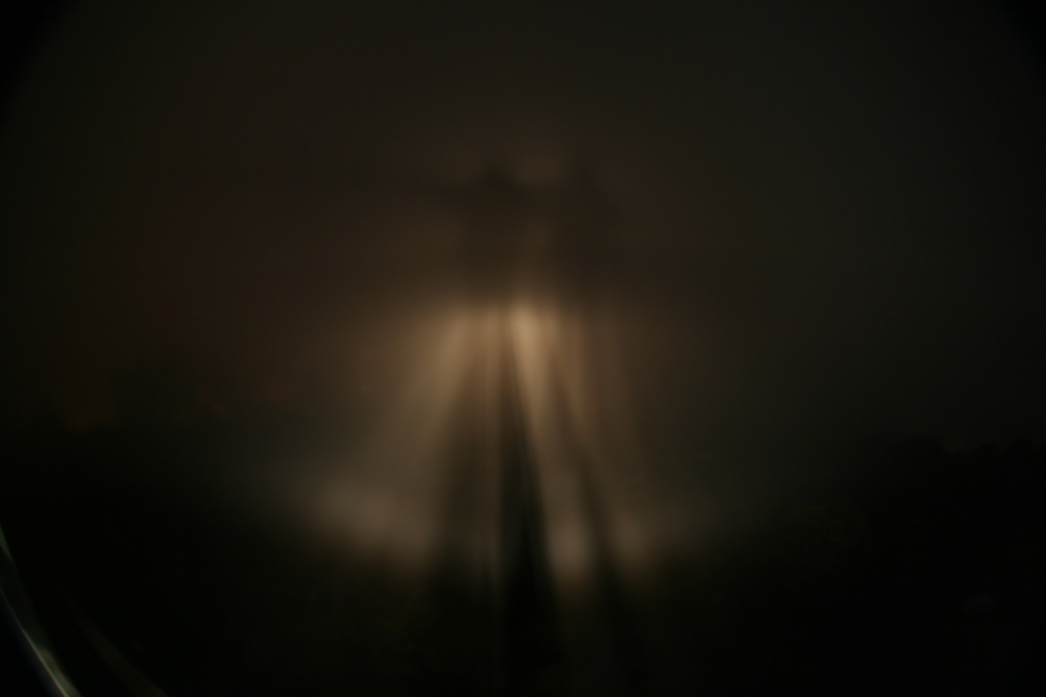 The night Spectre of the Brocken. I've used high lights of my car to create this Spectre.